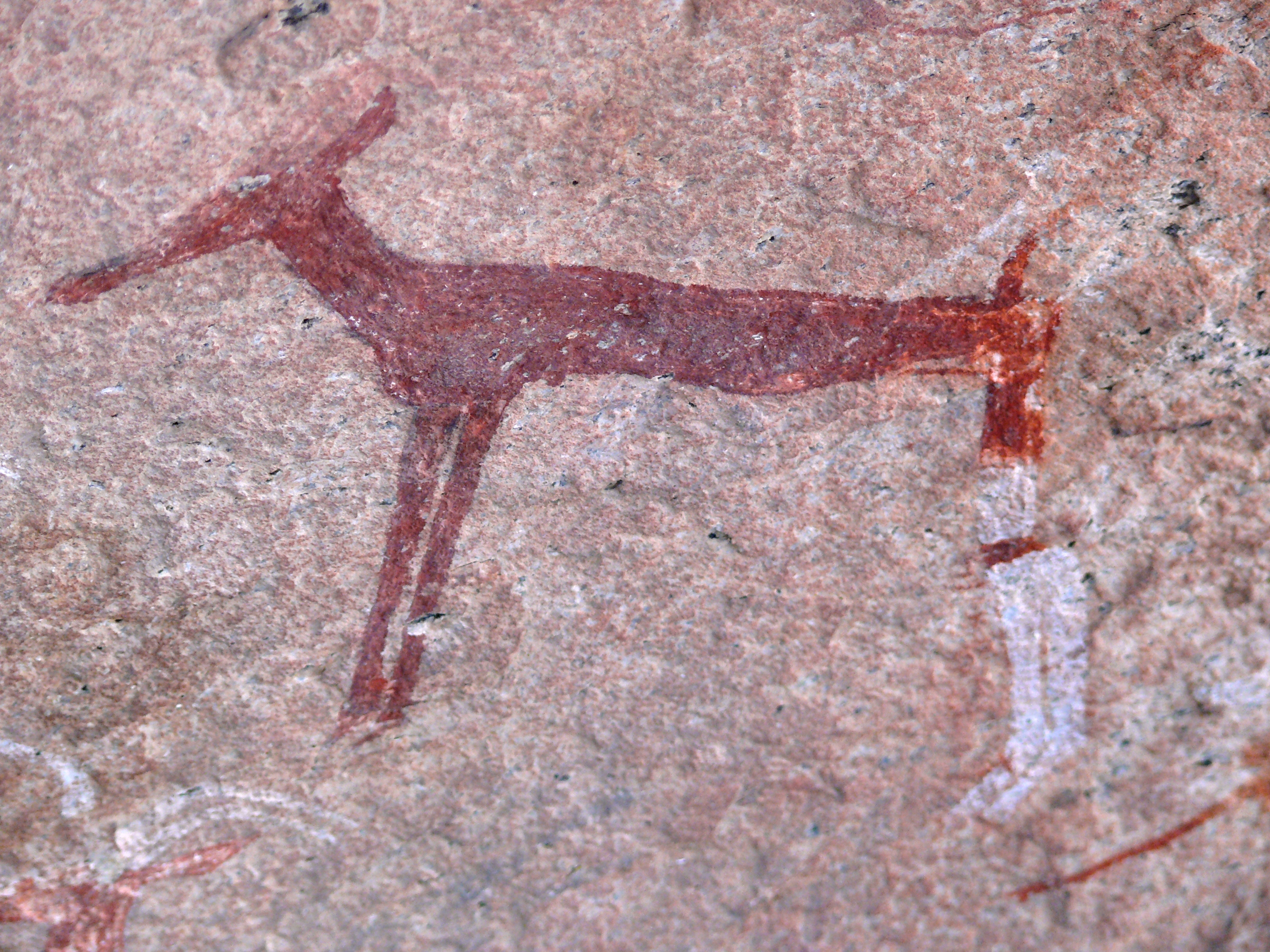 White Lady, Brandberg